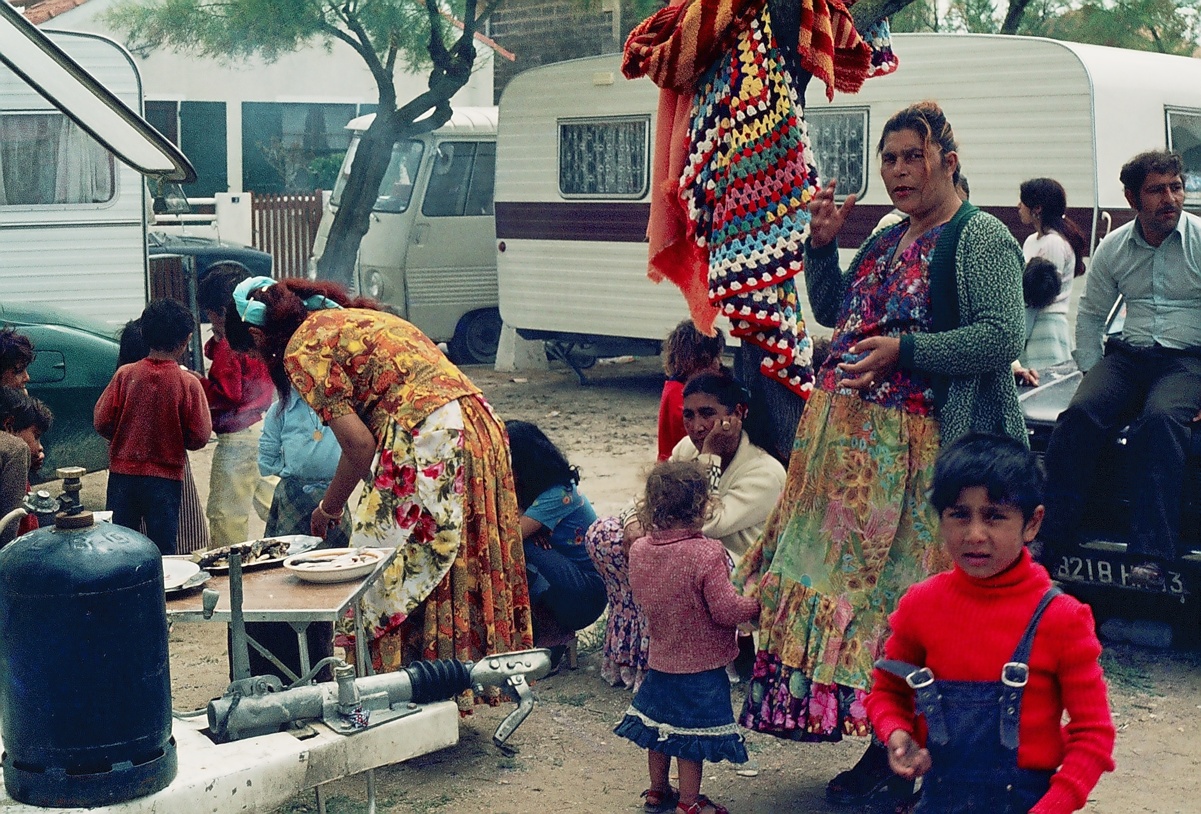 Gypsies during the pilgrimage at Saintes-Maries de la Mer.